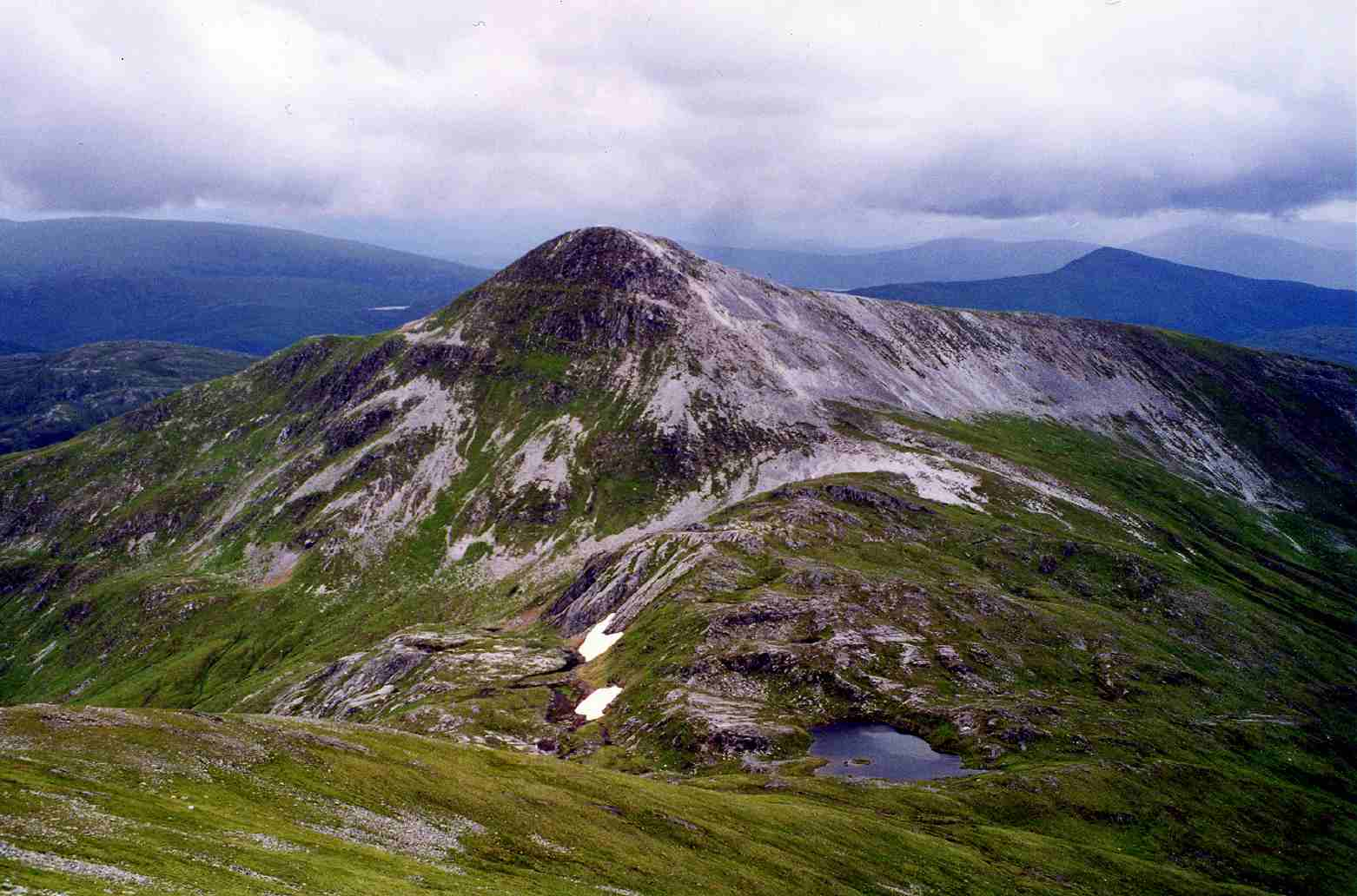 Personal photograph taken by Mick Knapton